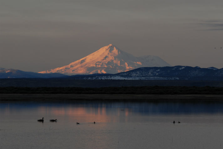 Mount Shasta from Tule Lake National Wildlife Refuge, California, USA